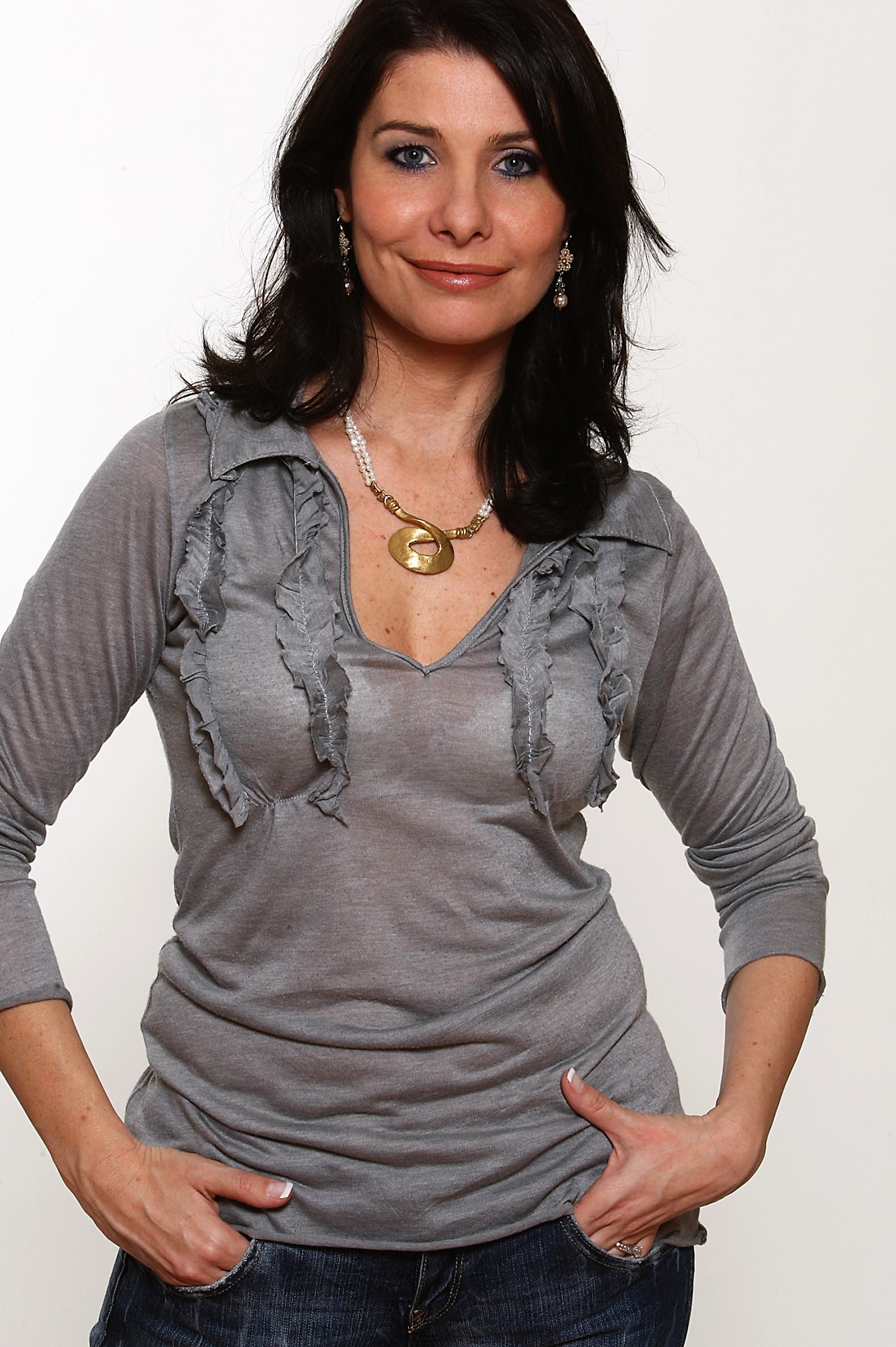 Christiana Ruggeri, Italian journalist